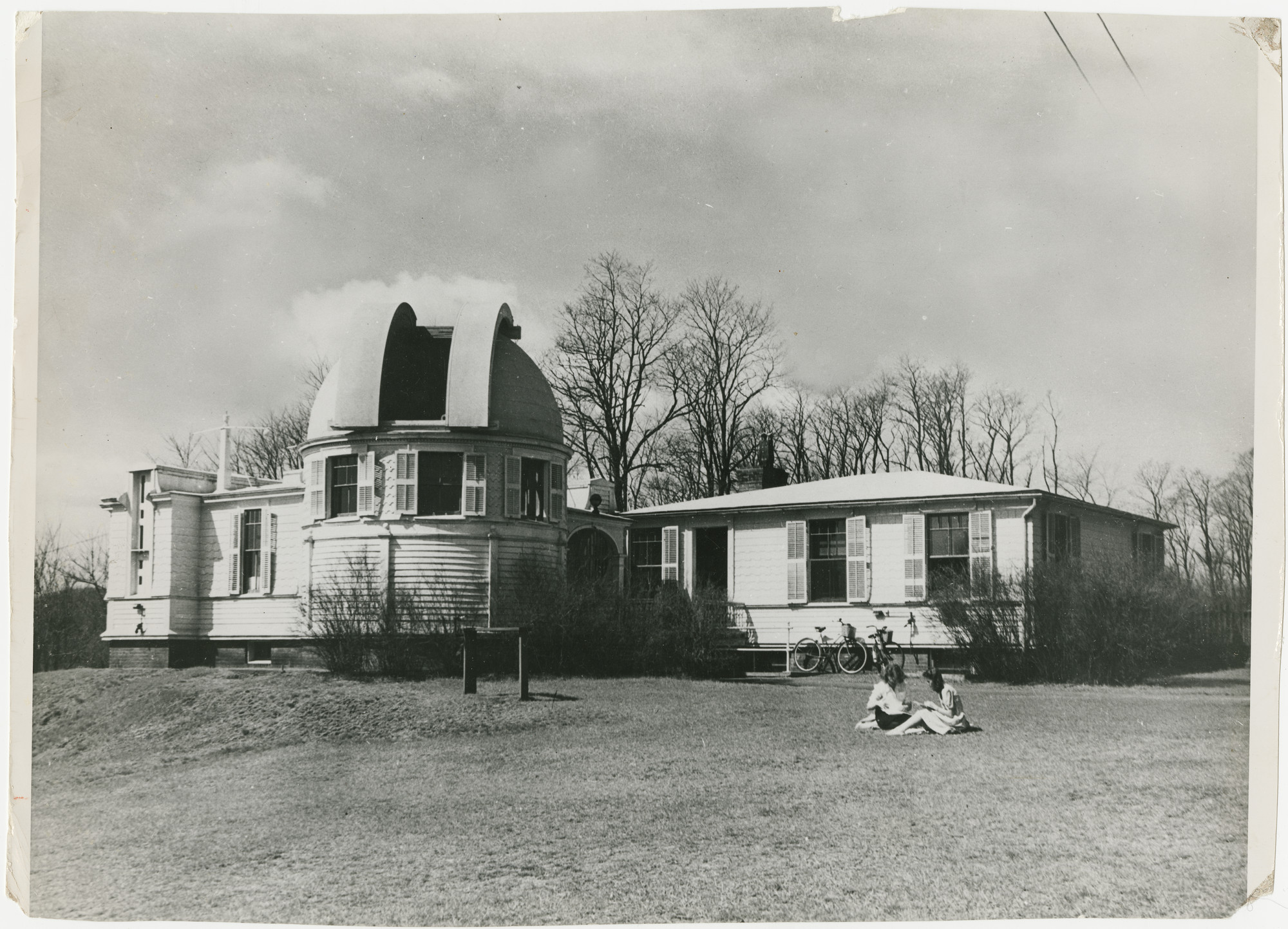 John Payson Williston Observatory, exterior, ca. 1945-1955, South Hadley, MA